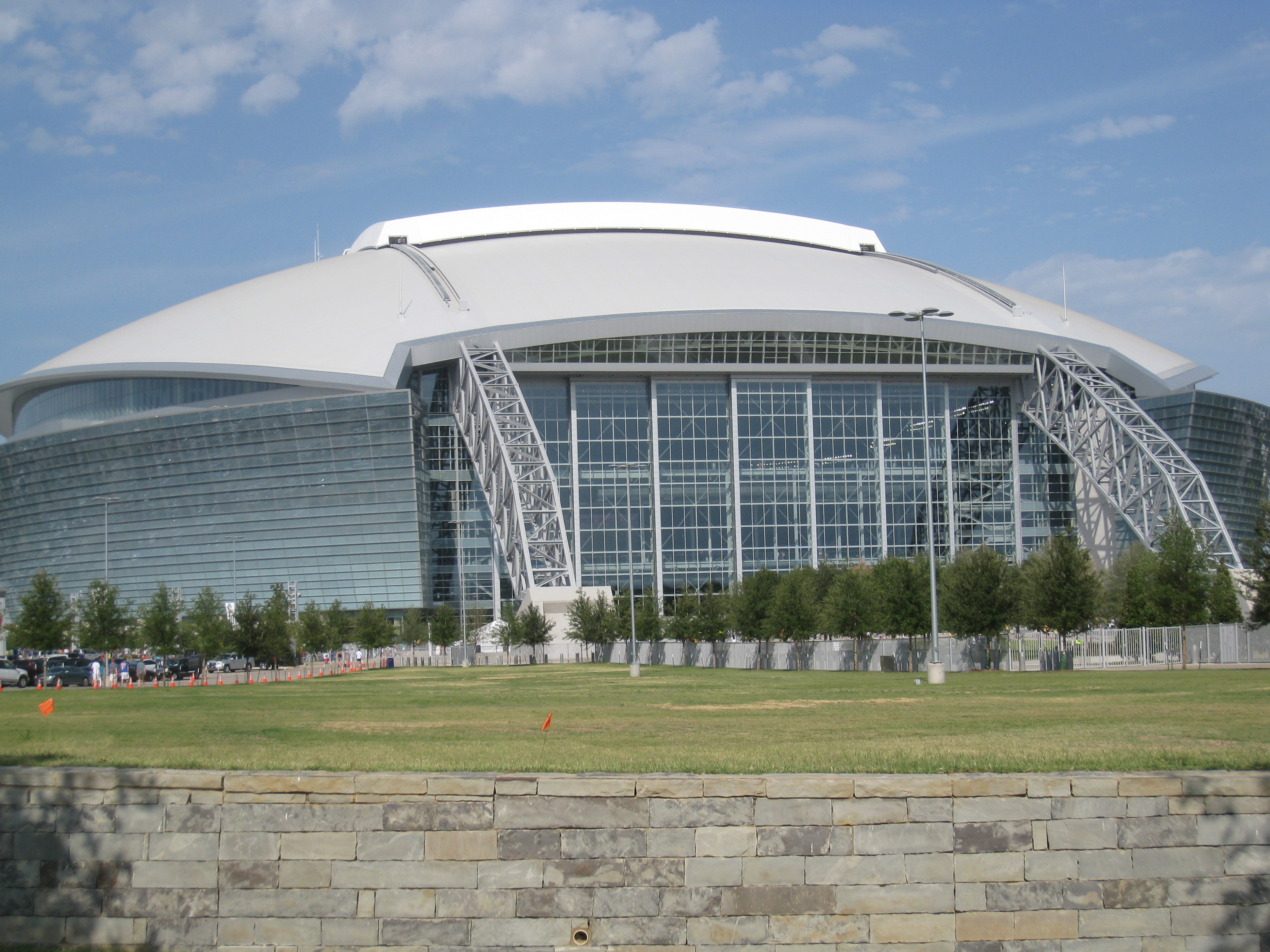 Taken in Arlington